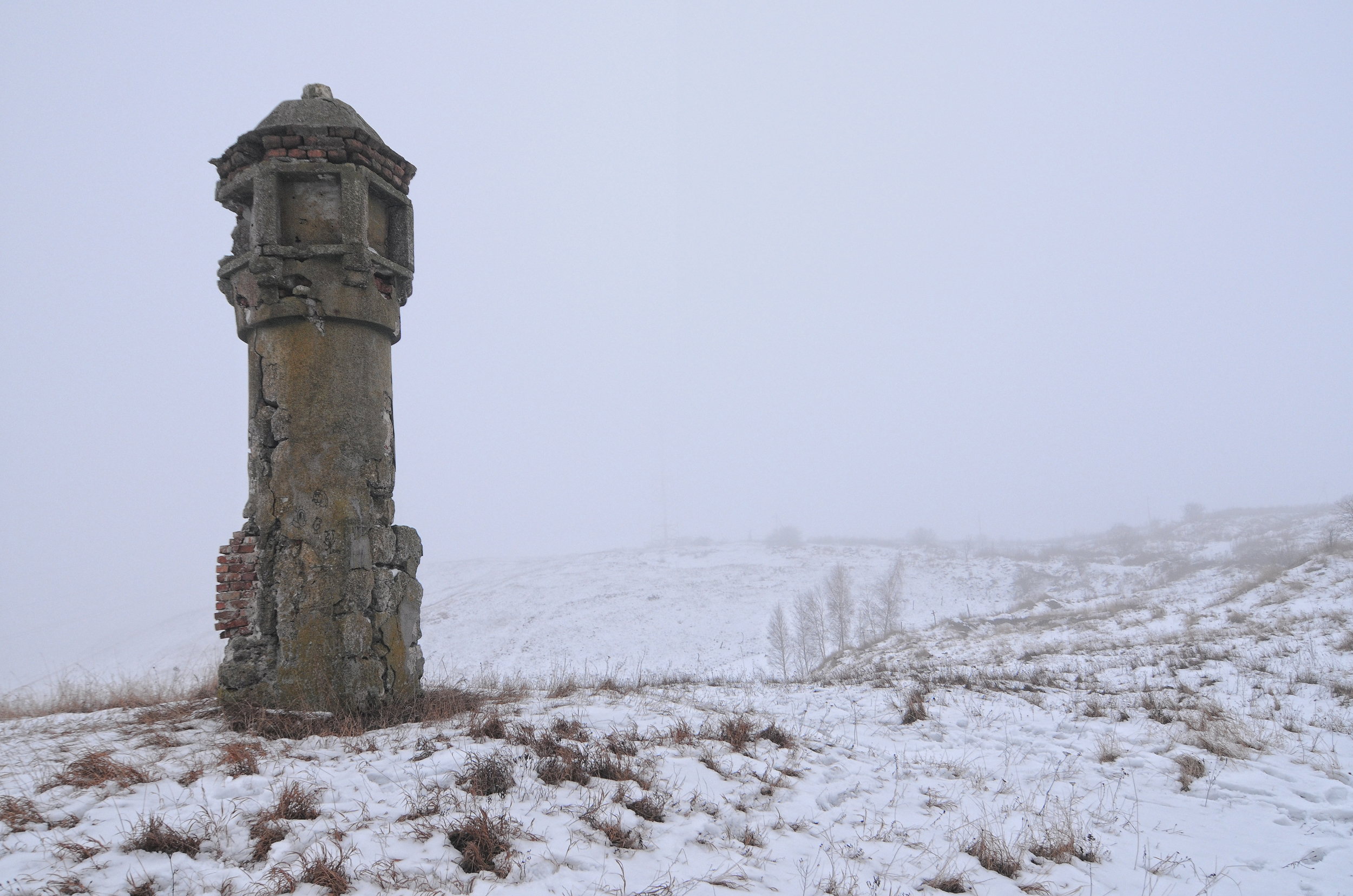 Roadside monument-tower, Holohory, Zolochiv Raion